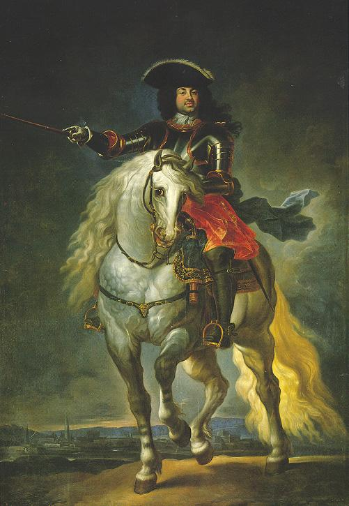 Portrait of Antonio Farnese, Duke of Parma on horseback